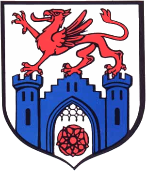 Coat of Arms of Pyrzyce